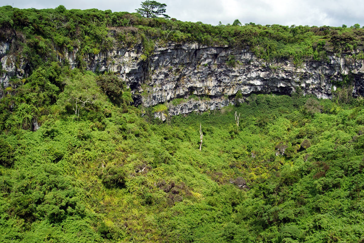 "Giant Scalesia pedunculata on Santa Cruz, Galapagos Islands"